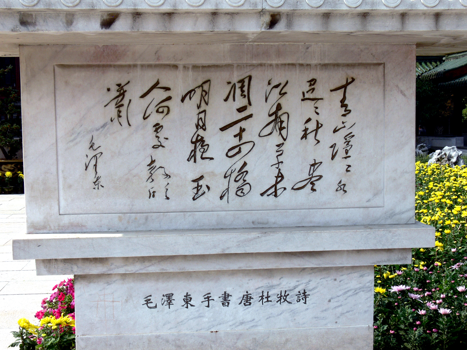 Mao Zedong caligraphed Du Mo 24 bridge poem毛泽东手书唐杜牧诗